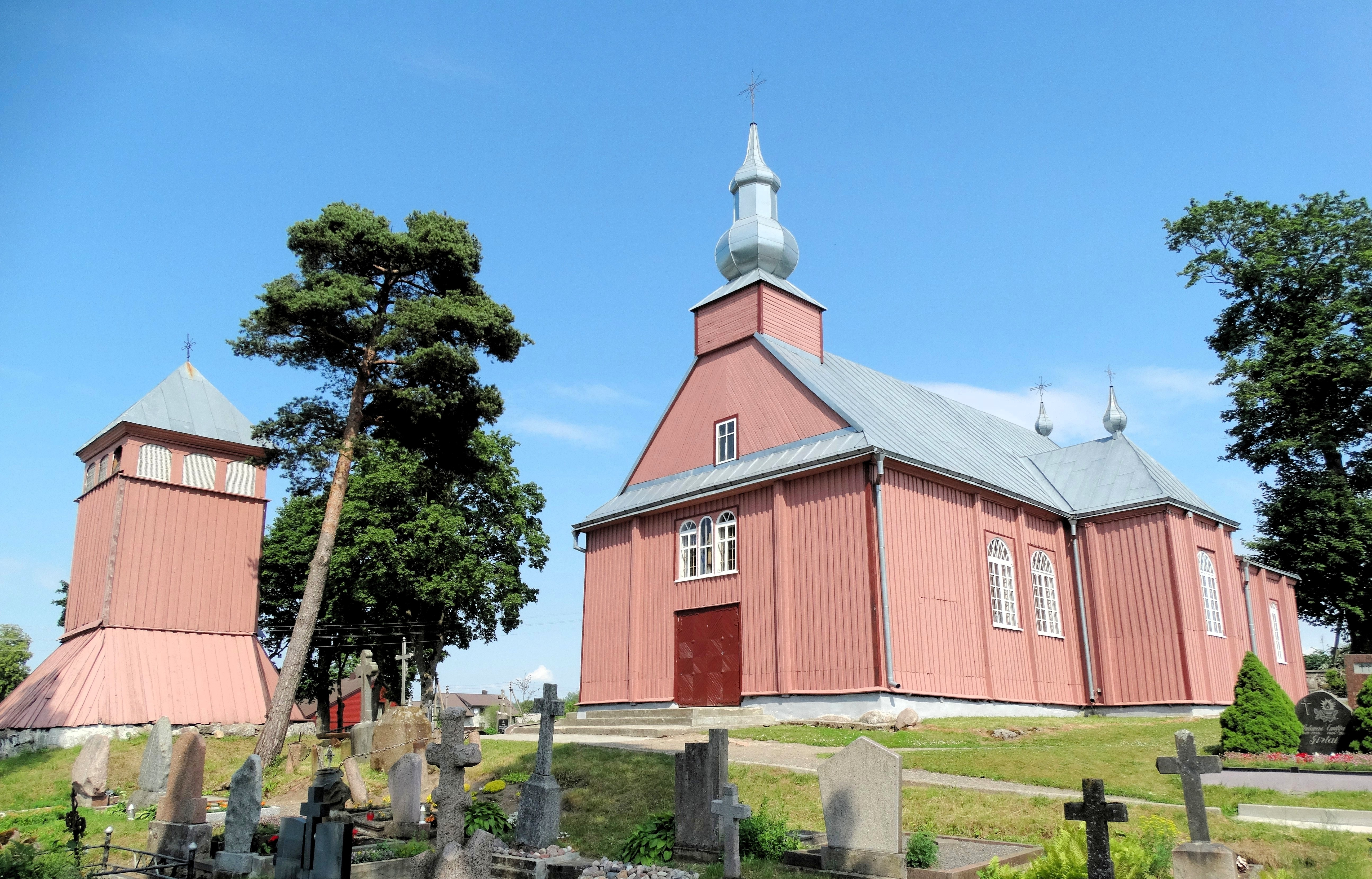 Church of the Providence of God in Eigirdžiai, Telšiai district, Lithuania